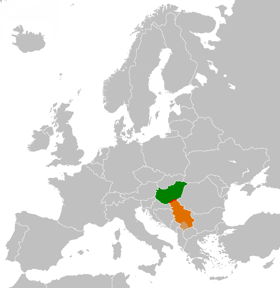 Derivative work of File:Hungary Serbia Locator.png to illustrate the border